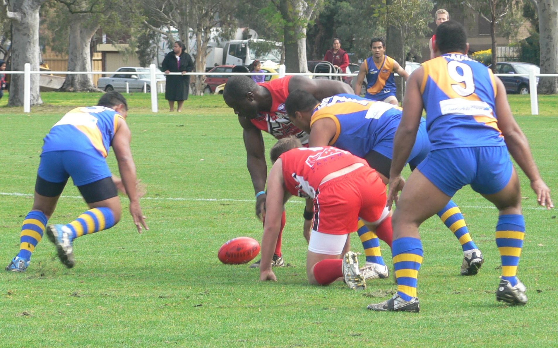 Nauru and Canada contest the ball at ground level at the 2008 Australian Football International Cup